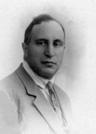 Onorato Nicoletti (Rieti 1872-Pisa 1929), Italian mathematician